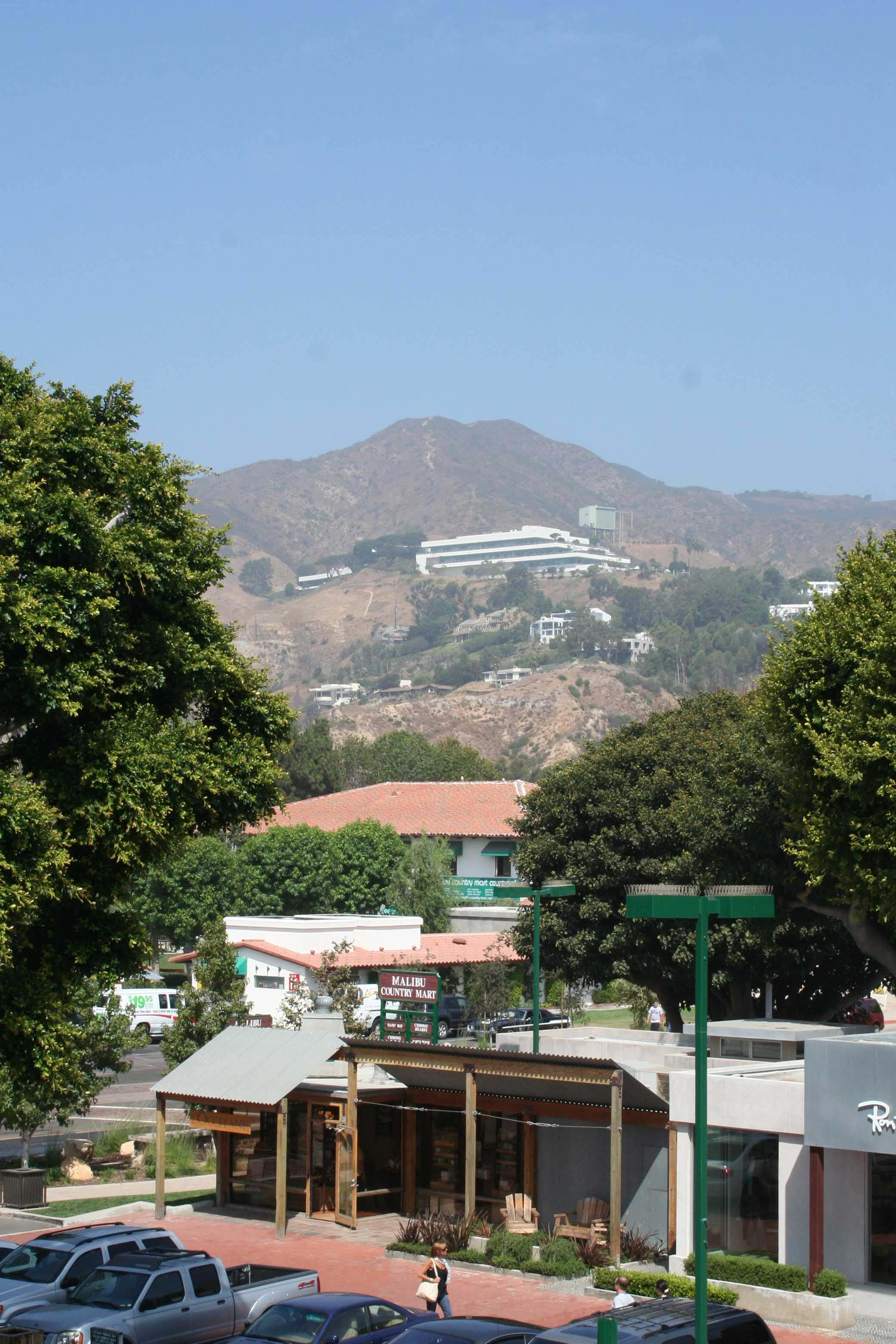 Rooftop photo